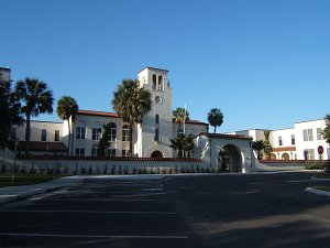 Picture of Leesburg High School